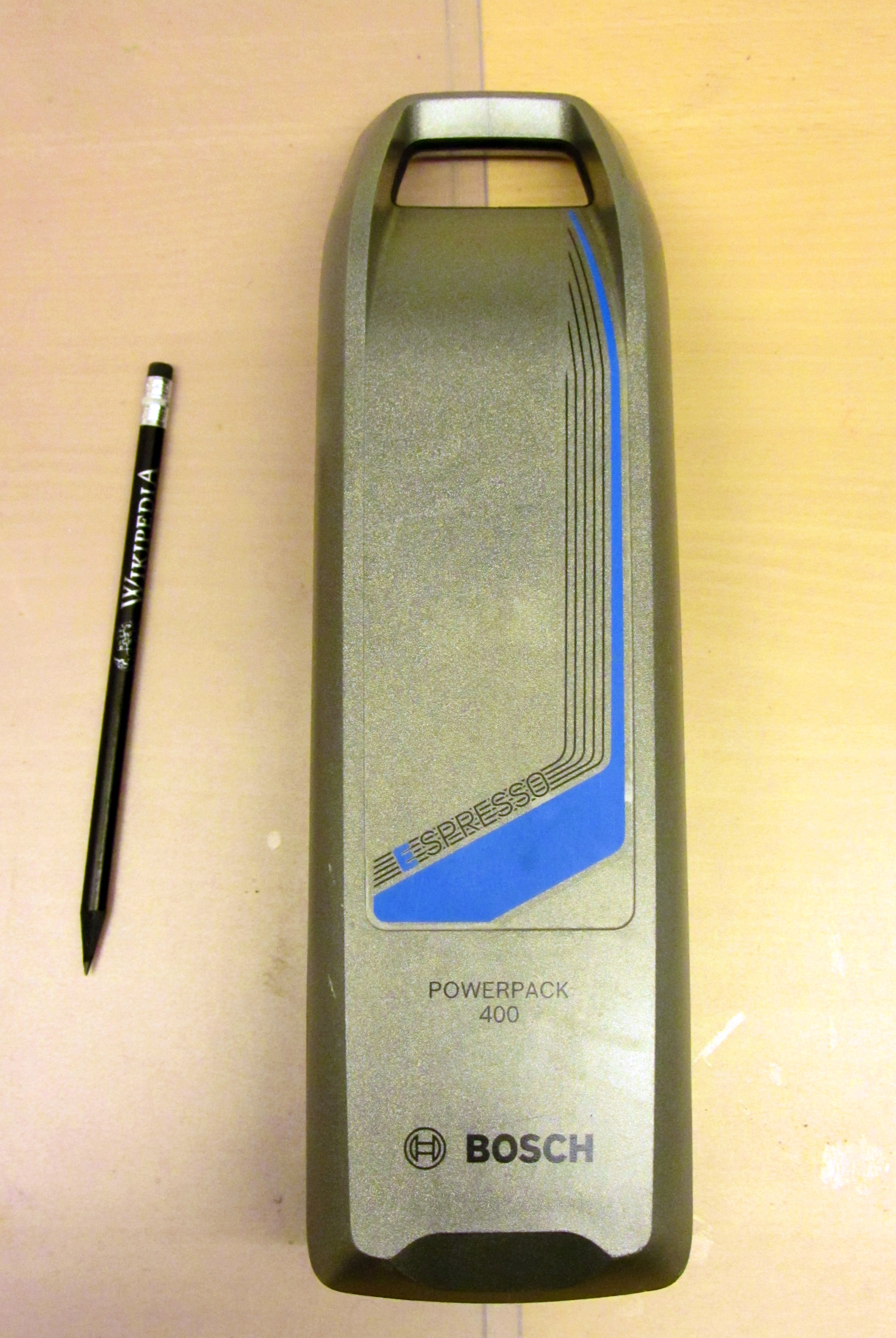 Bosch Li-Ion-battery "Powerpack 400" for Bosch Pedelecs. 36 V, 11 Ah, 400 Wh A pencil as a size comparison